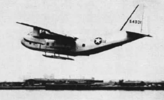 A U.S. Air Force Stroukoff YC-123E-SA Provider (s/n 55-4031, originally 54-554) fitted with a pantobase landing gear taking off from the Delaware River off the U.S. Navy Naval Air Auxiliary Facility Philadelphia in 1955. The YC-123E was also equipped with a conventional landing gear. Pilots: Roy Peltz, Buck Atkinson